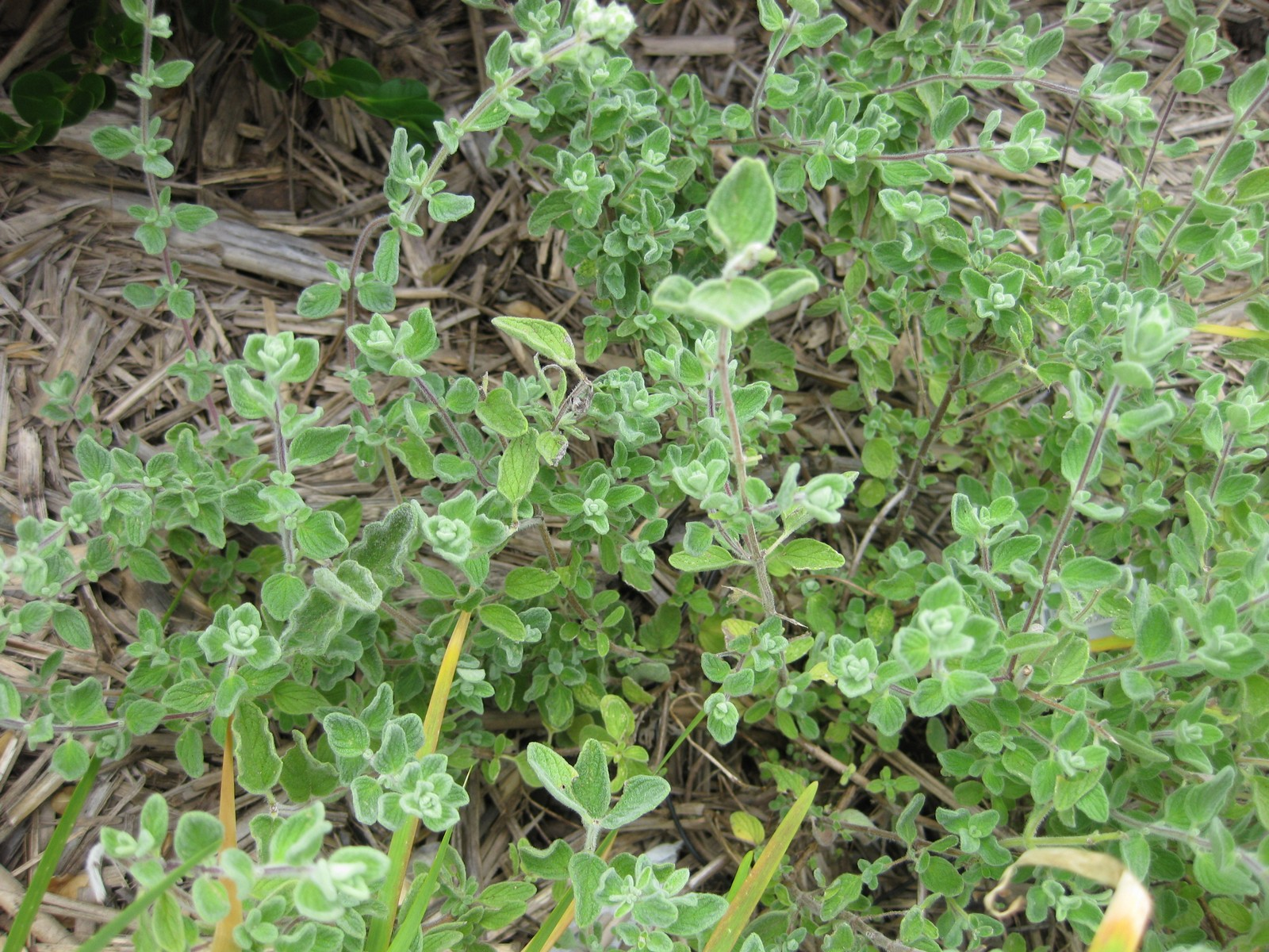 Photographed at the Royal Botanic Gardens Sydney (Australia) in January